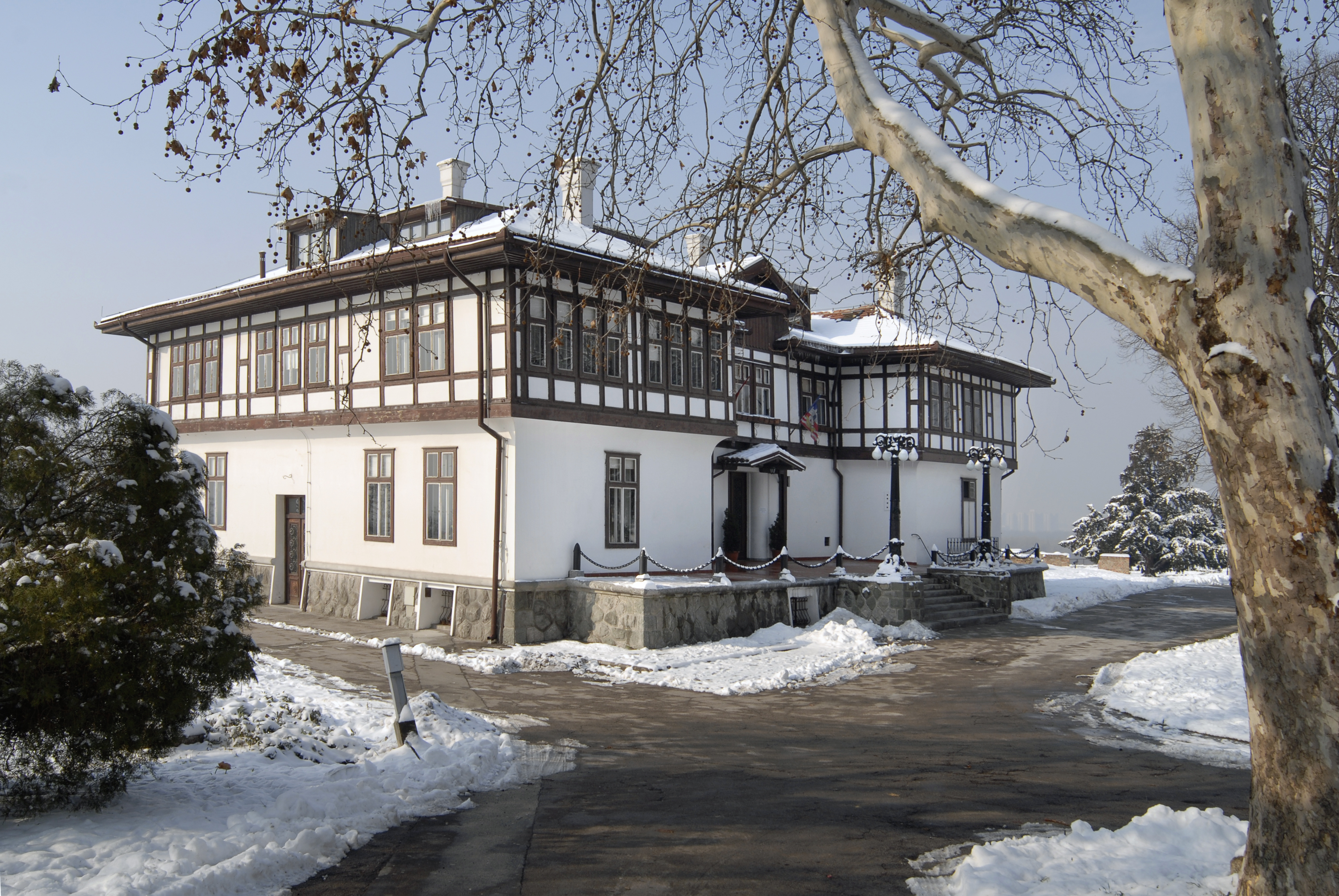 Cultural Heritage Protection Institute of the city of Belgrade, photo, 2000s